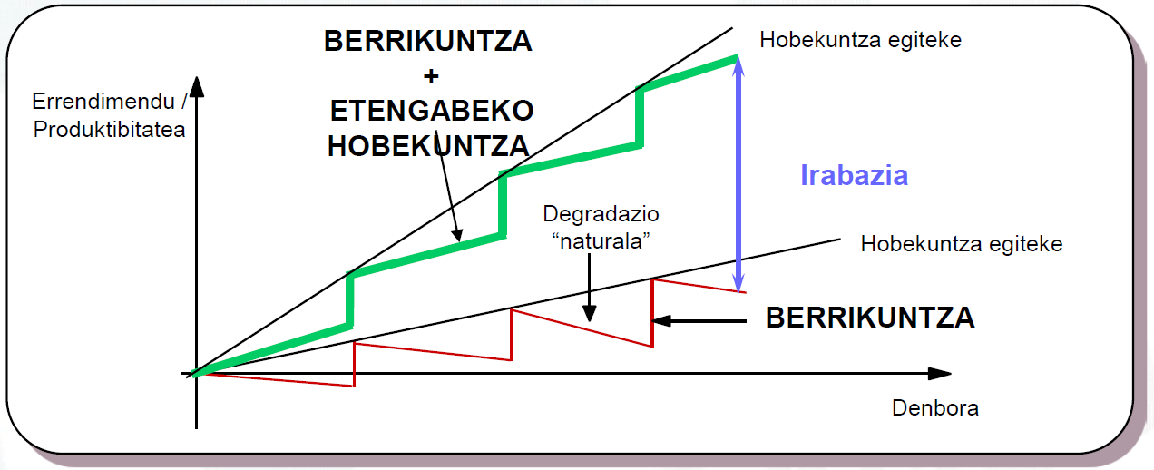 Etengabeko hobekuntza eta berrikuntza